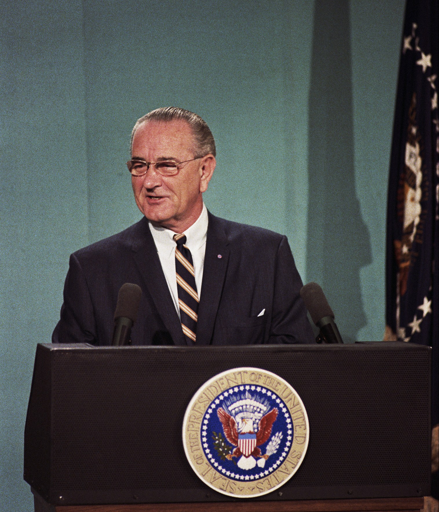 President Lyndon B. Johnson addresses the audience before signing the Wholesome Meat Act